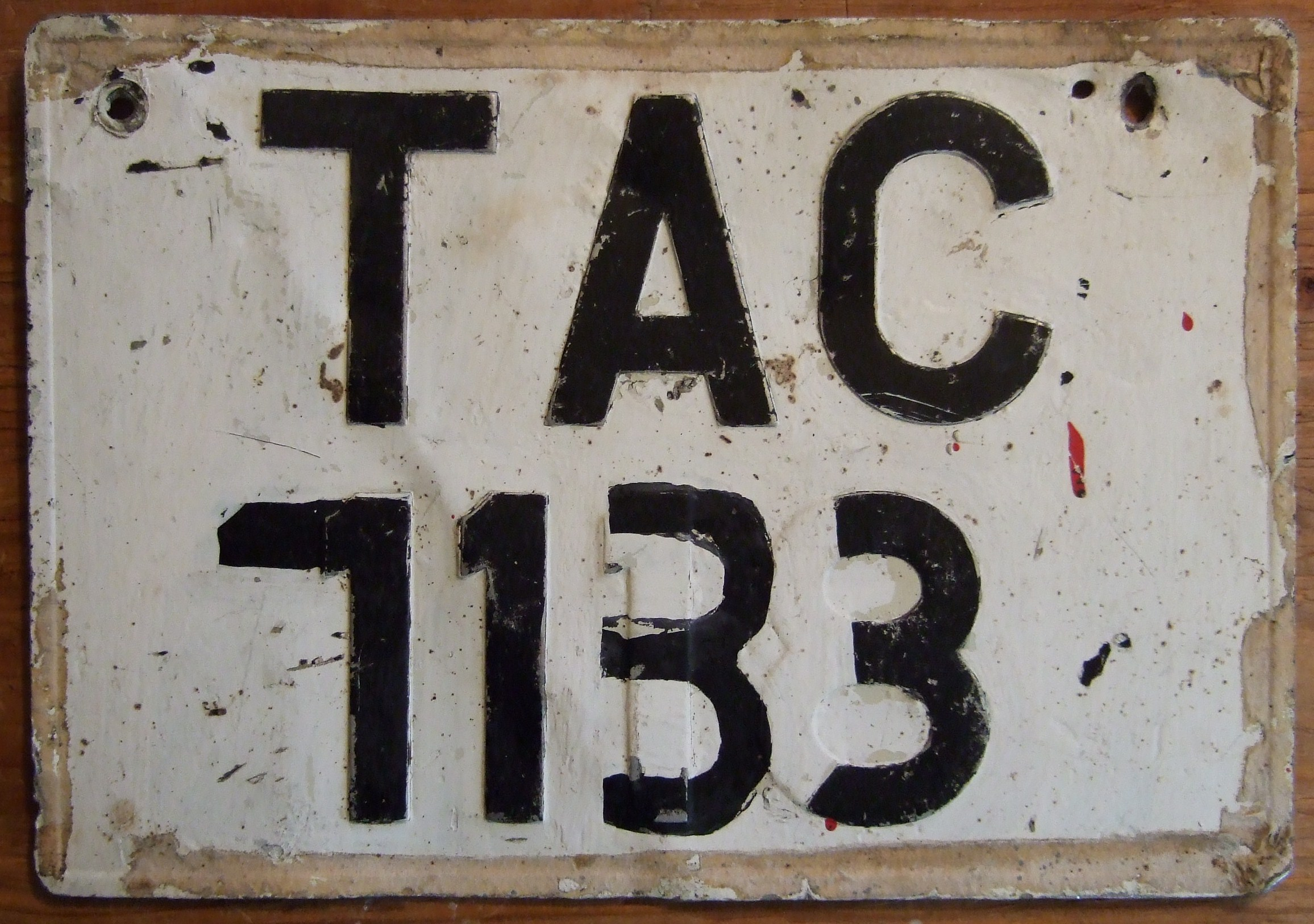 This Trinidad and Tobago license plate was originally of the black on silver series which was issued previously to the current black on white series. The original number was TAC1118 and the plate was crudely renumbered to TAC7133.